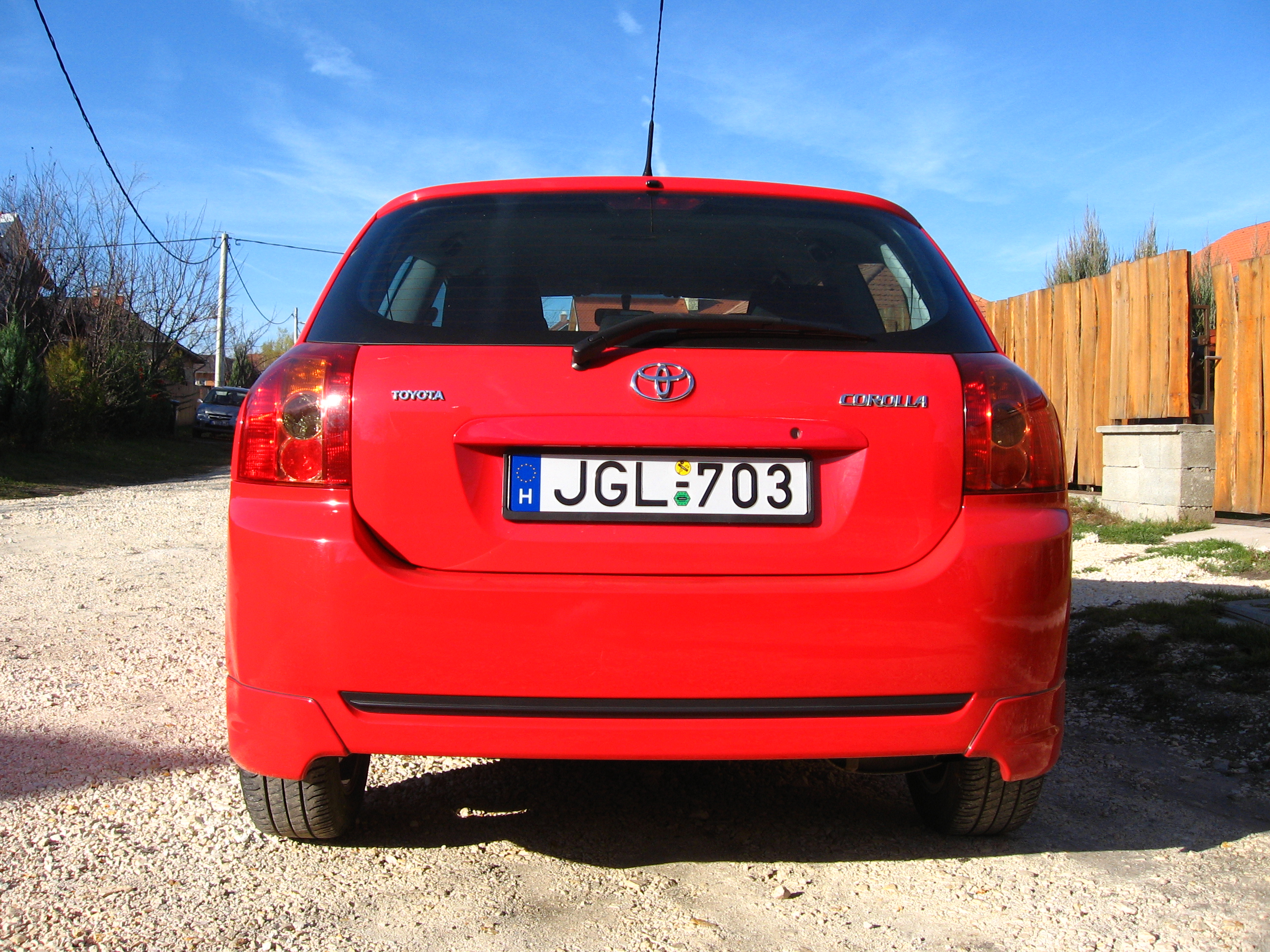 Toyota Corolla E120 Hatchback Sport 1.4 VVT-i Year:2004 red back